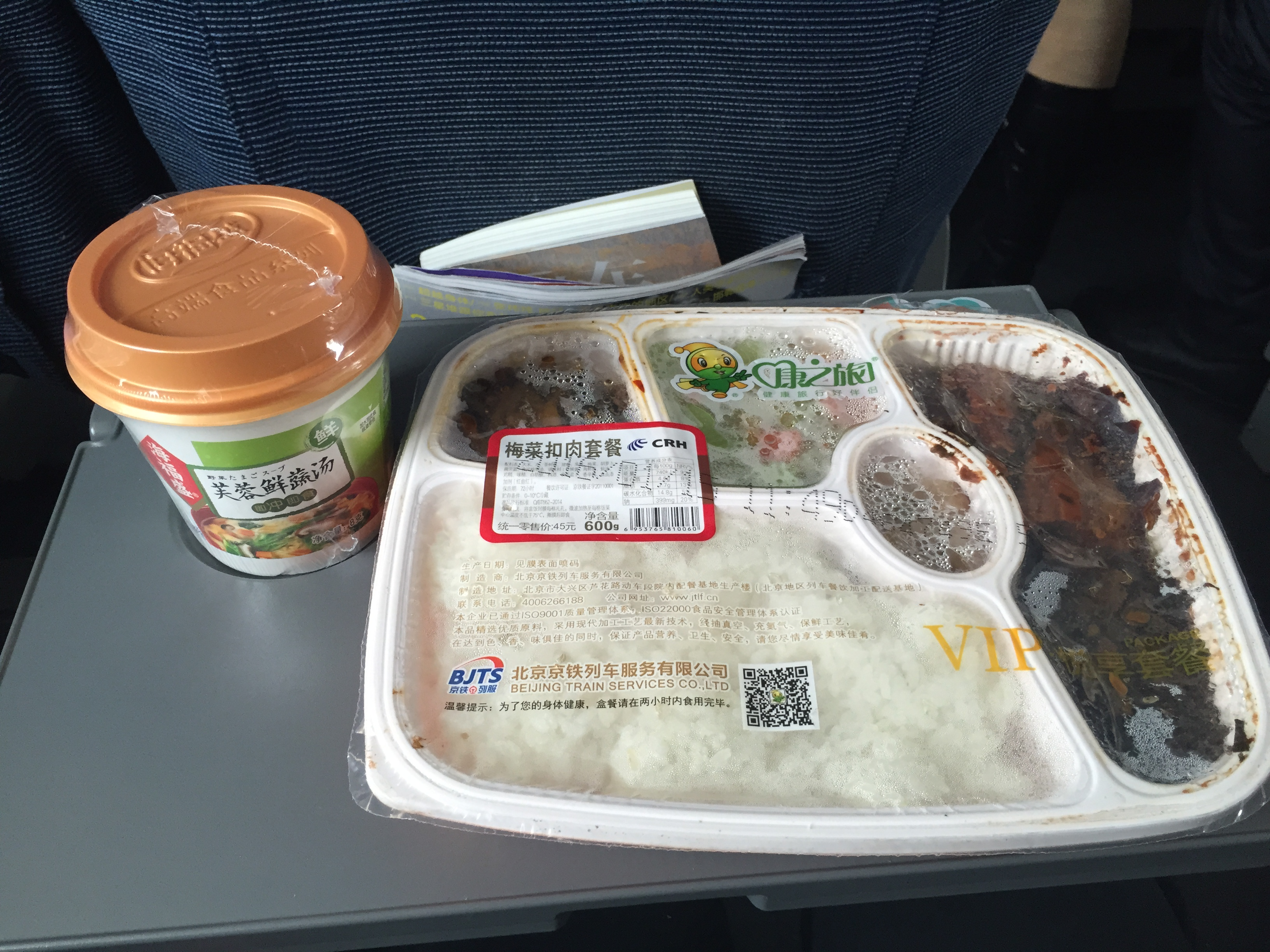 Sold for 45. This is a typical bento on Beijing Railway Bureau's CRH trains.